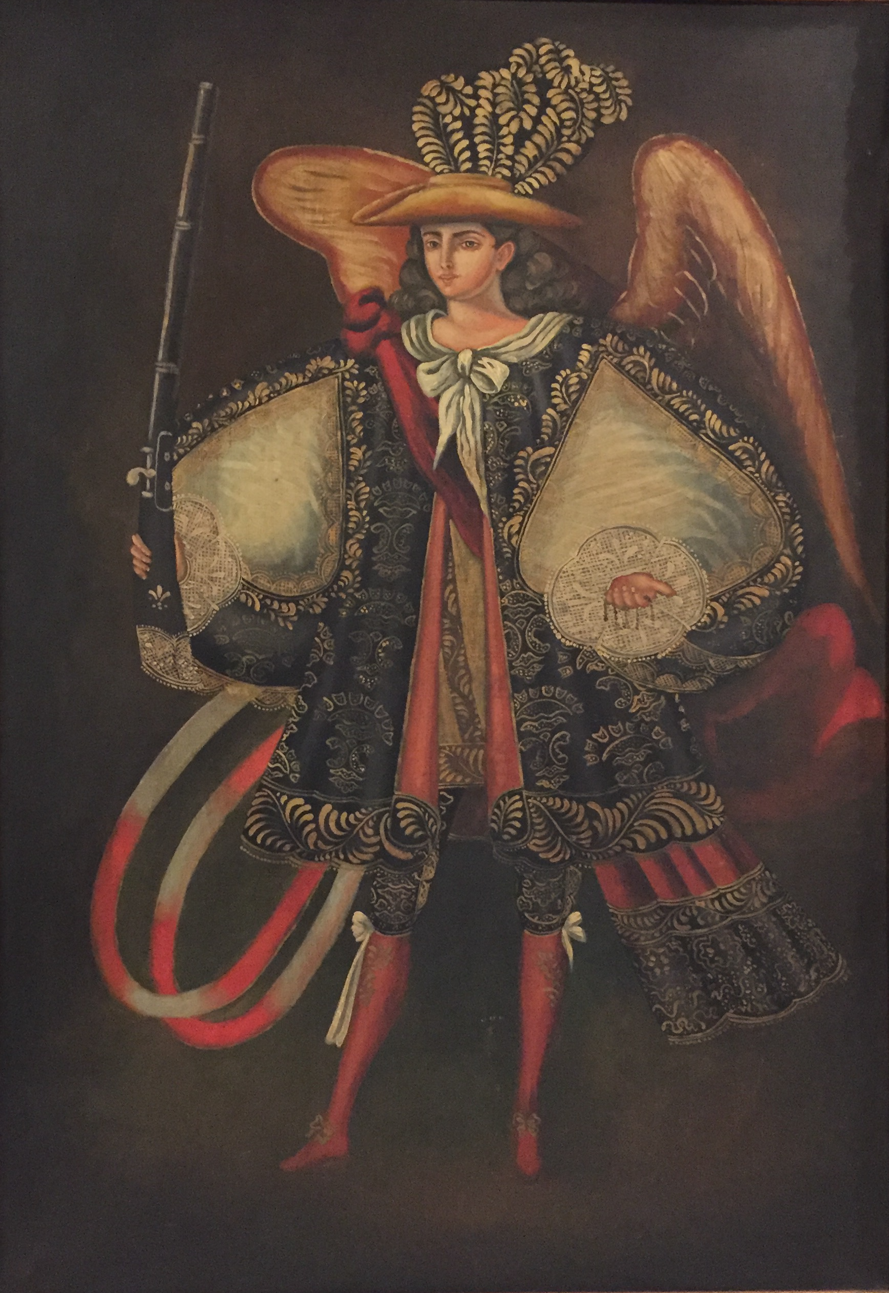 An ángel arcabucero (arquebusier angel), an angel depicted with an arquebus (an early muzzle-loaded firearm) instead of the sword traditional for martial angels, dressed in clothing inspired by that of the Andean nobles and aristocrats.